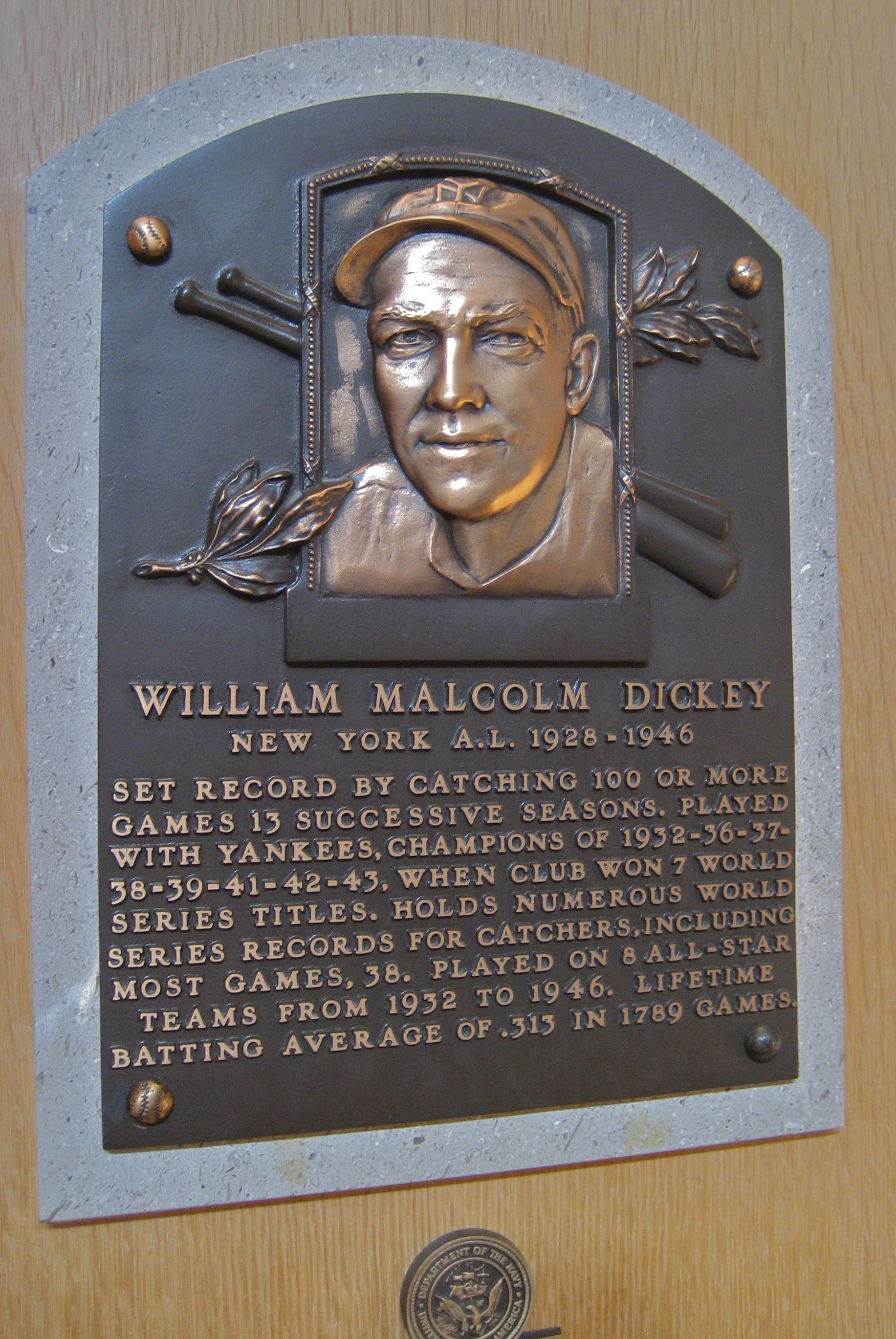 Yankee catcher Bill Dickey's plaque at the Baseball Hall of Fame in Cooperstown, NY.